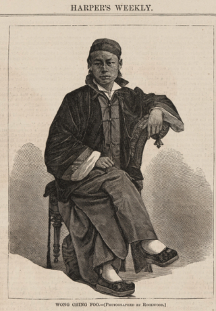 Chinese American Activist Wong Chin Foo pictured in the May 26th, 1877 edition of Harpers Weekly